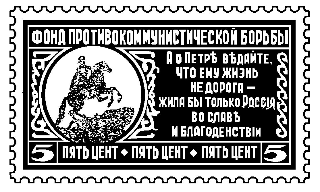 Stamp VFP (5 cents)